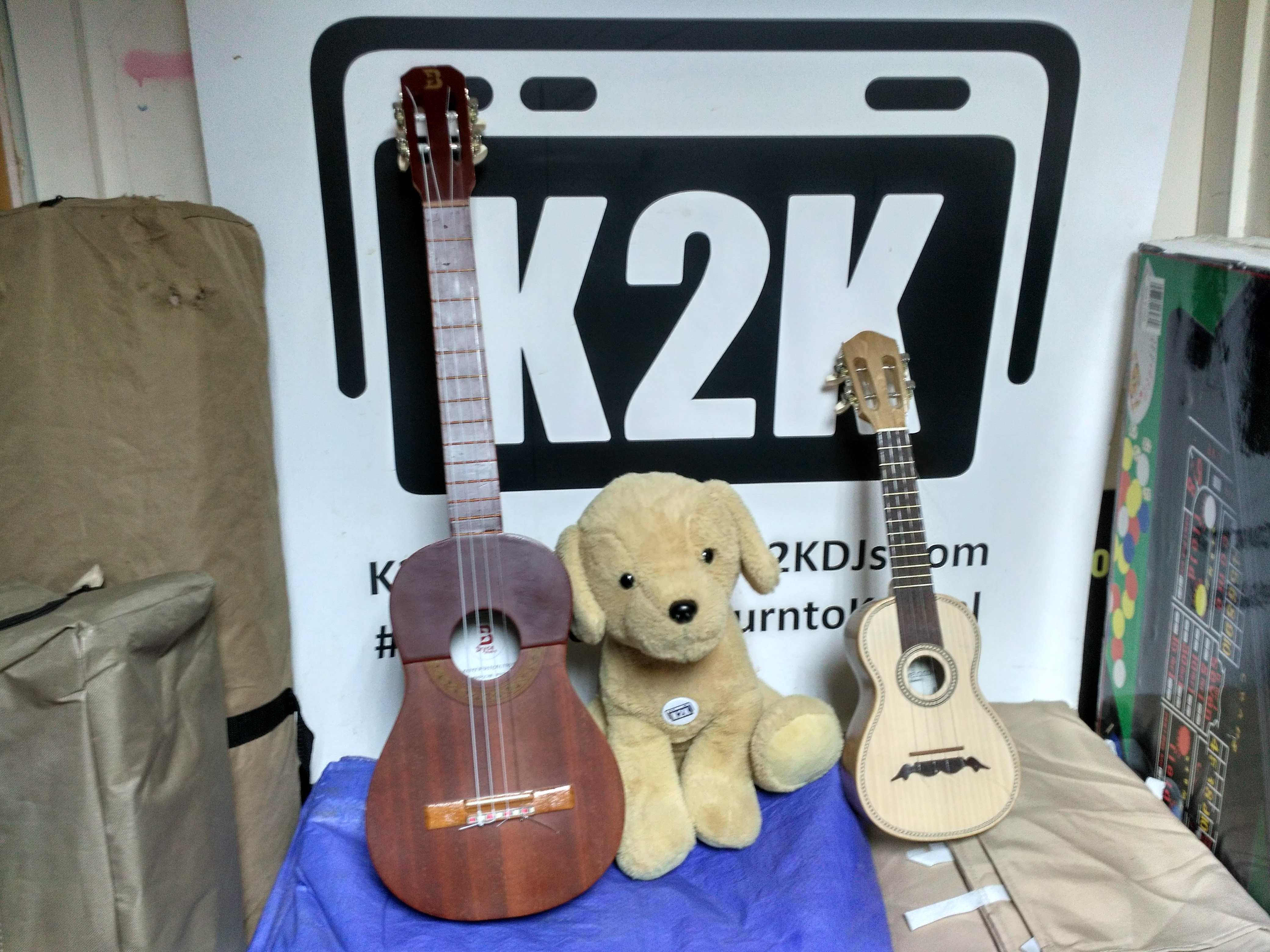 K2K radio's logo, with the K2K mascot between two instruments - a Venezuelan cuatro and a Portuguese cavaquinho.